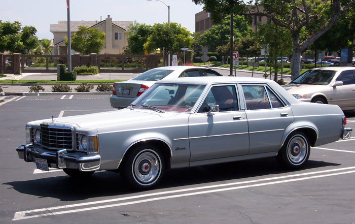 Ford Granada (US version). Despite its age, this car is still being used as daily transportation. It's in fairly perfect condition, too. Spotted and photographed by User:Morven in a supermarket parking lot on August 23, 2004.